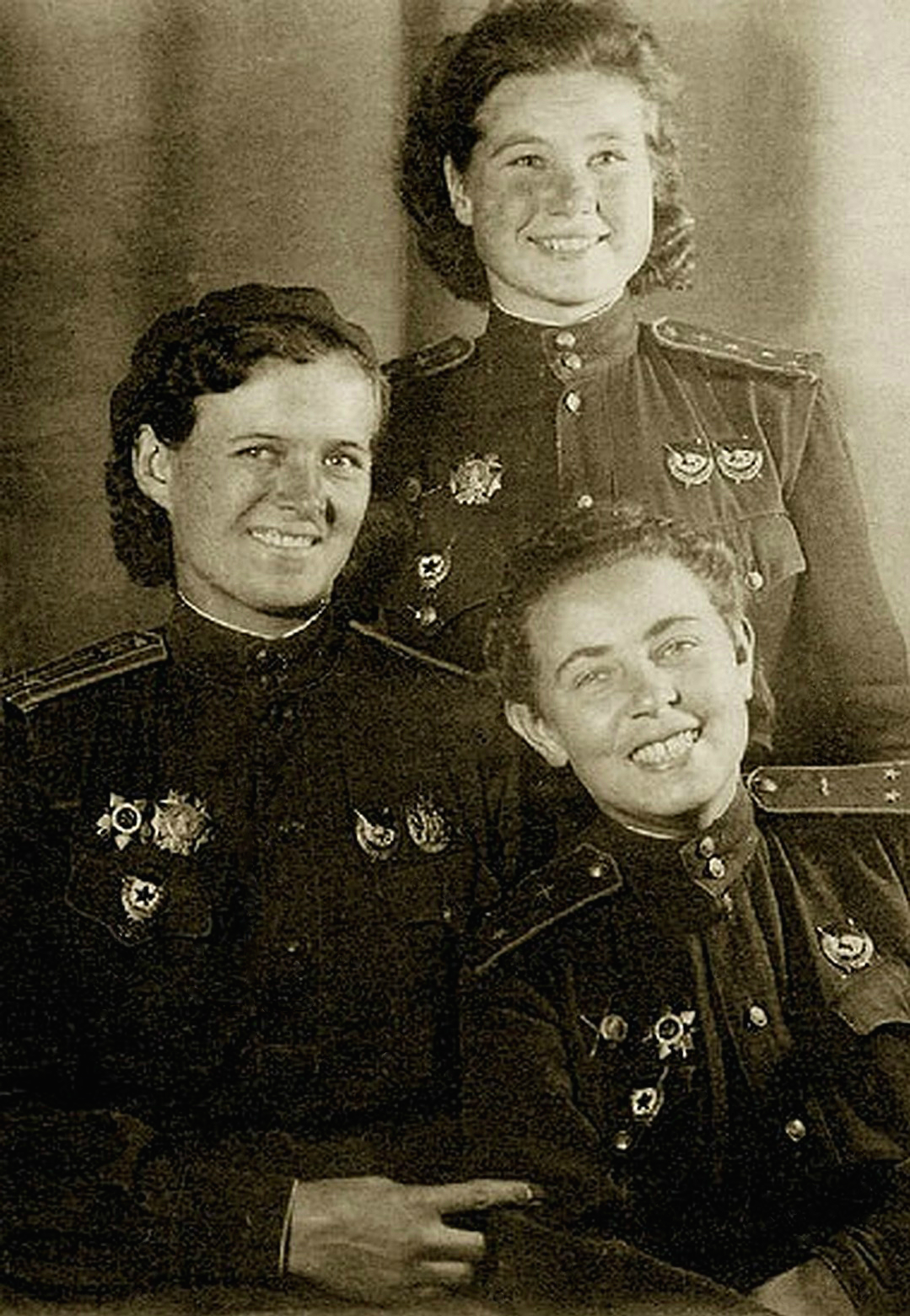 Girls-the officers of the 46th Taman Guards Night Bomber Aviation Regiment, 325th Night Bomber Division, 4th Air Army: Evdokia Bershanskaya (left), Maria Smirnova (standing) and Polina Gelman